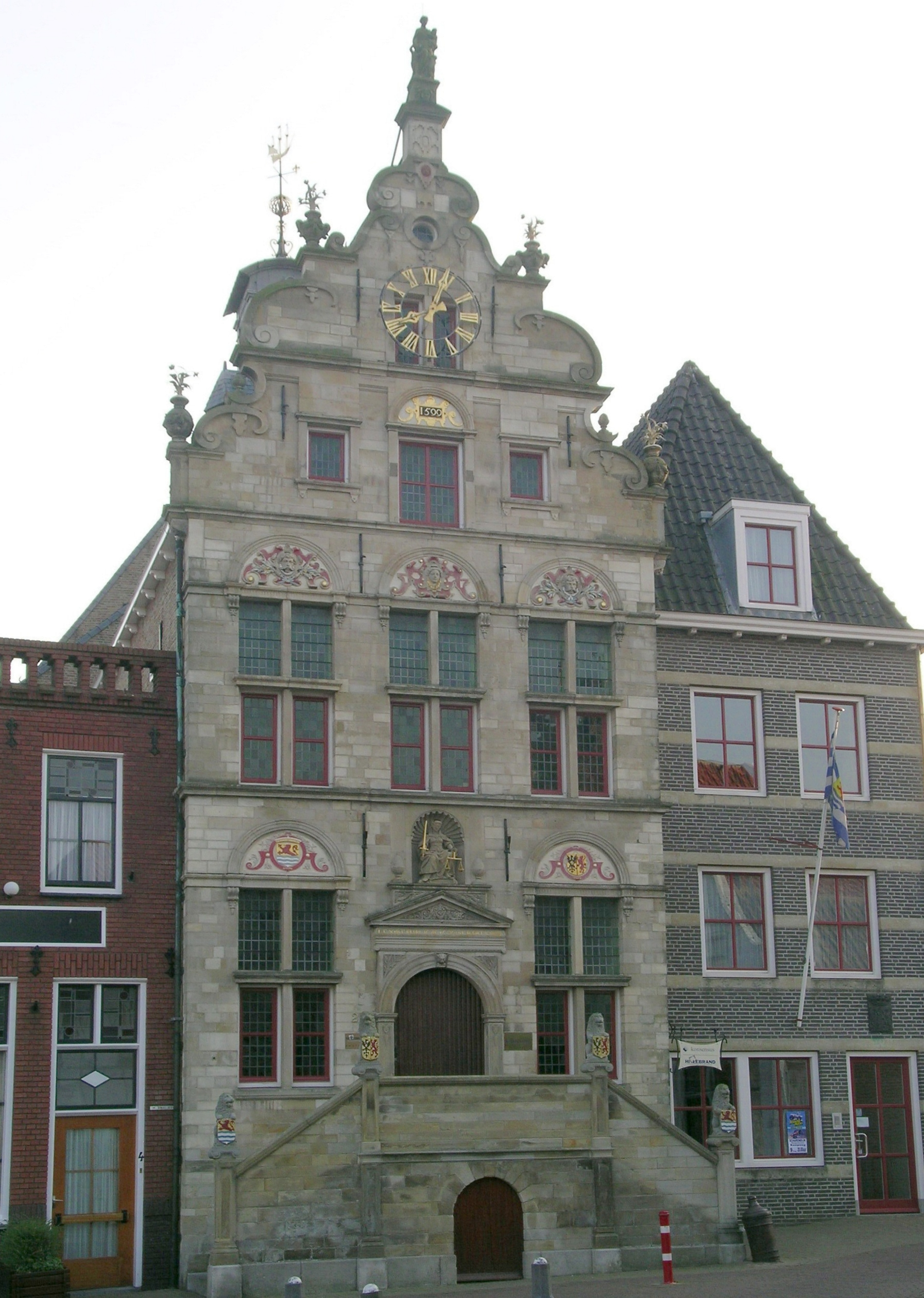 Brouwershaven town hall (1599)